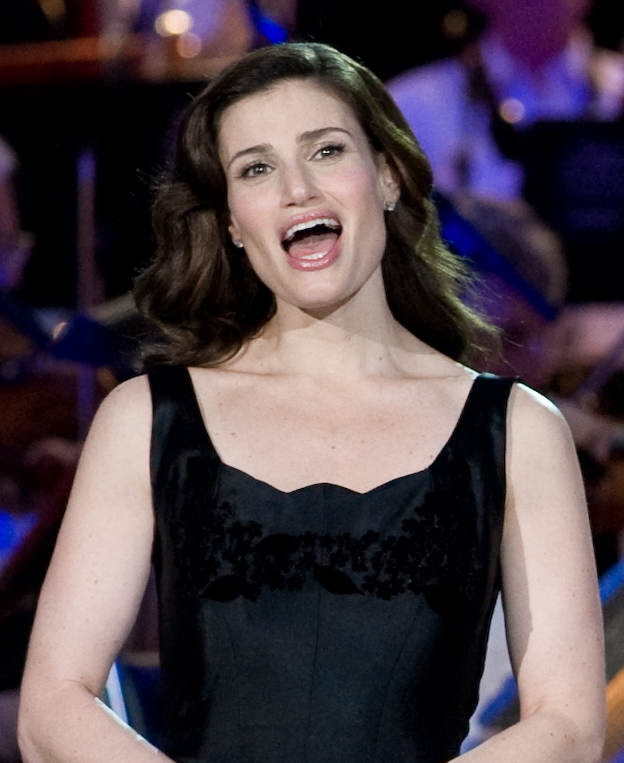 Idina Menzel singing "God Bless America" at the conclusion of the 2008 National Memorial Day Concert on the lawn of the U.S. Capitol, Washington D.C.